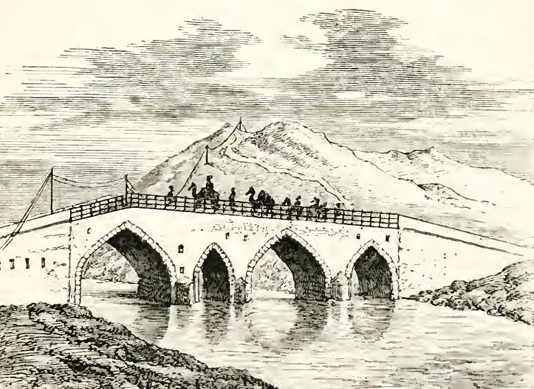 The Red Bridge. From: Telfer, John Buchan (1876), The Crimea and Transcaucasia; being the narrative of a journey in the Kouban, in Gouria, Georgia, Armenia, Ossety, Imeritia, Swannety, and Mingrelia, and in the Tauric range. London: H.S. King & Co.